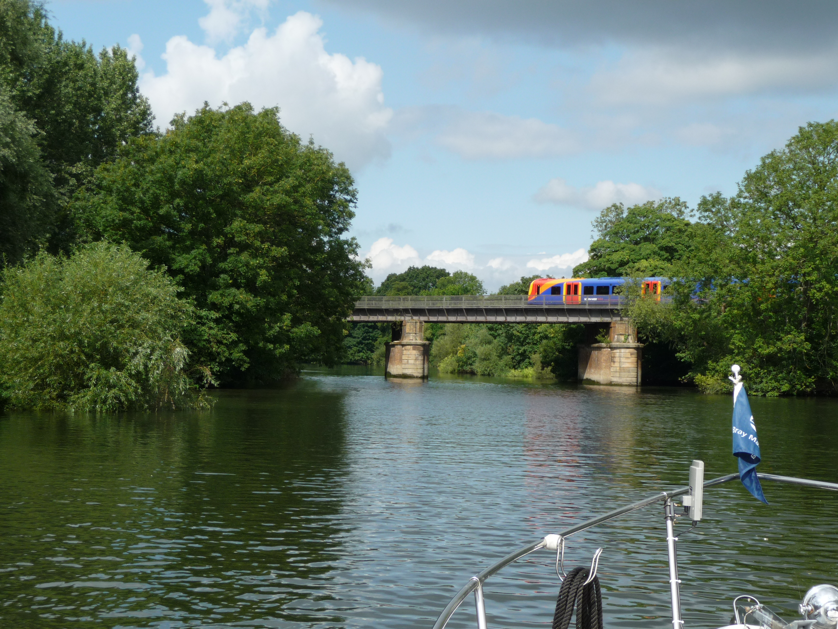 Downstream side of Black Potts Bridge carrying the Waterloo line across the Thames at Windsor.